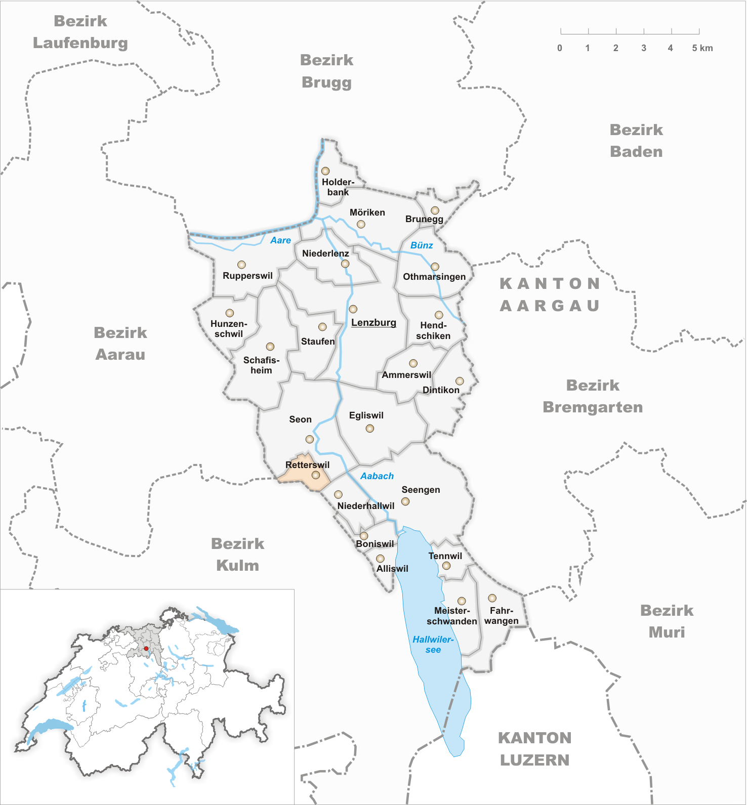 Municipality Retterswil